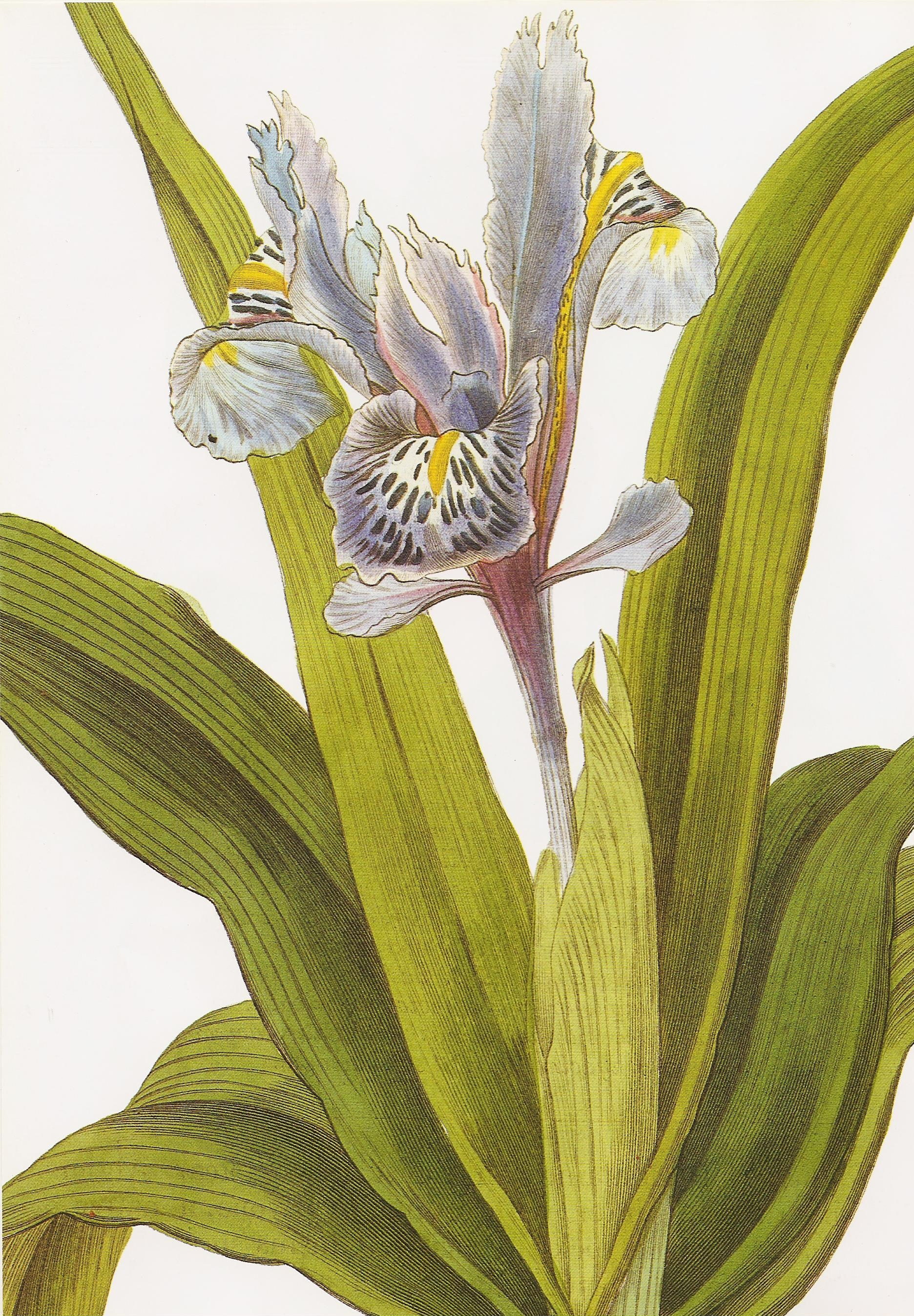 Iris alata (now planifolia), a hand-coloured engraving after a drawing by Miss S. A. Drake (fl. 1820s-1840s), from the 22nd volume of the Botanical Register (1836), edited by John Lindley